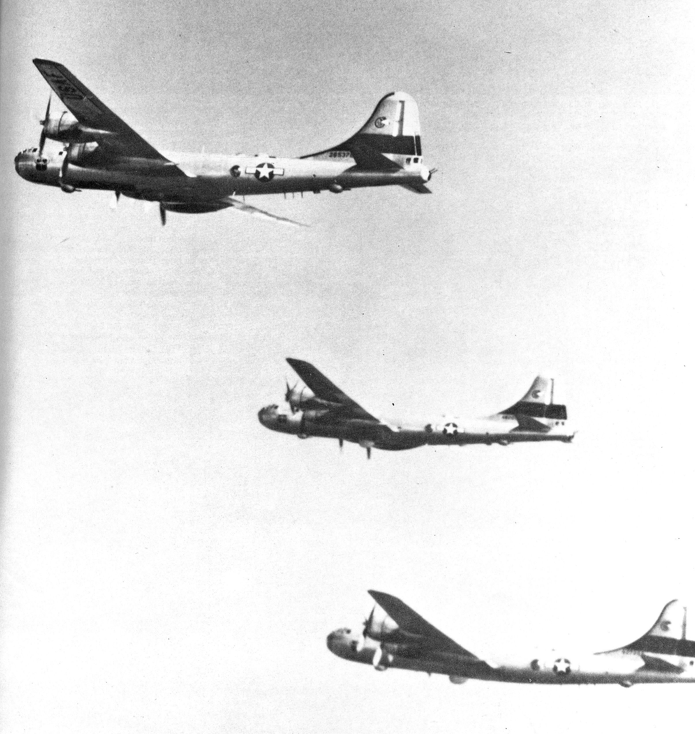 19th Bombardment Group - B-29 Superfortresses - 1950, en-route to Far East Air Forces during the opening days of the Korean War